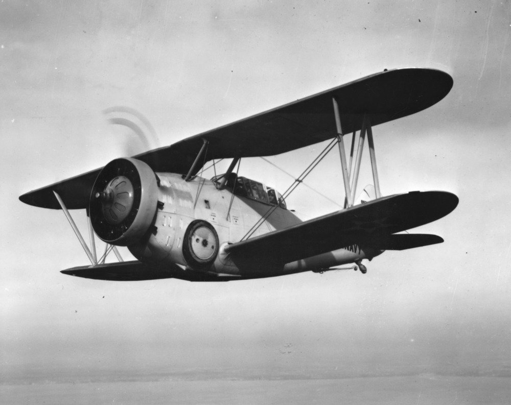 PictionID:43637229 - Title:Grumman XFF-1 A-8878 NAS Hampton Rads 4Feb32 80-G-651783 - Catalog:17_000325 - Filename:17_000325.tif - ---------Image from the René Francillon Photo Archive. Having had his interest in aviation sparked by being at the receiving end of B-24s bombing occupied France when he was 7-yr old, René Francillon turned aviation into both his vocation and avocation. Most of his professional career was in the United States, working for major aircraft manufacturers and airport planning/design companies. All along, he kept developing a second career as an aviation historian, an activity that led him to author more than 50 books and 400 articles published in the United States, the United Kingdom, France, and elsewhere. Far from “hanging on his spurs,” he plans to remain active as an author well into his eighties.-------PLEASE TAG this image with any information you know about it, so that we can permanently store this data with the original image file in our Digital Asset Management System.--------------SOURCE INSTITUTION: San Diego Air and Space Museum